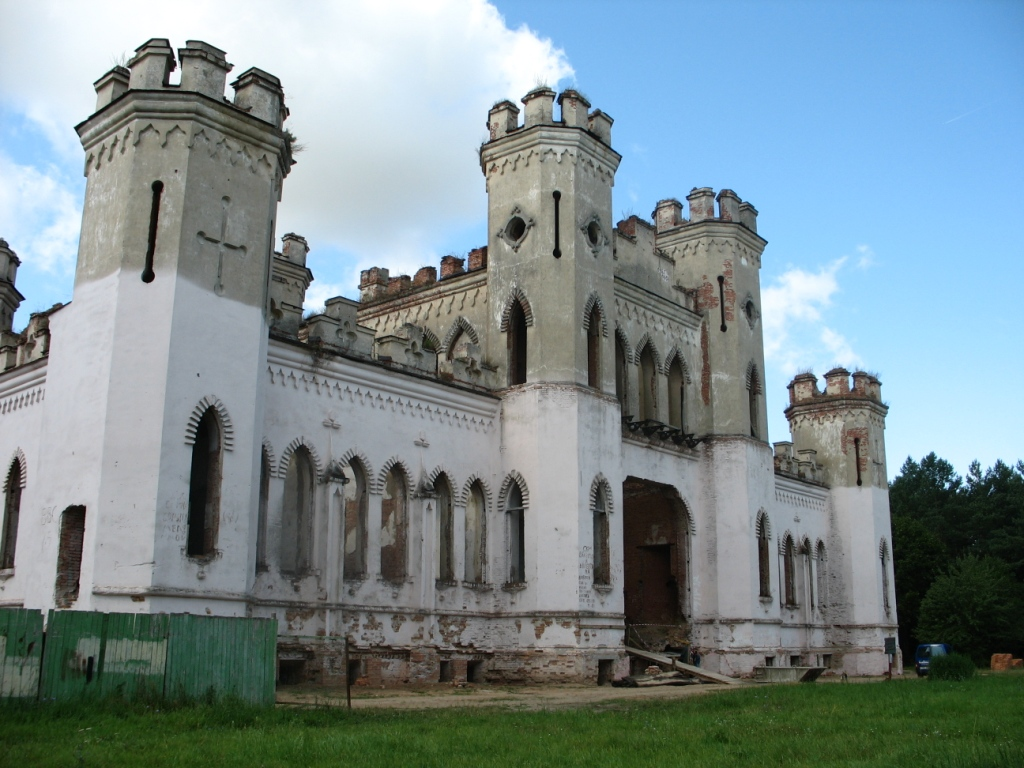 Kosava Castle, Belarus. Restauration